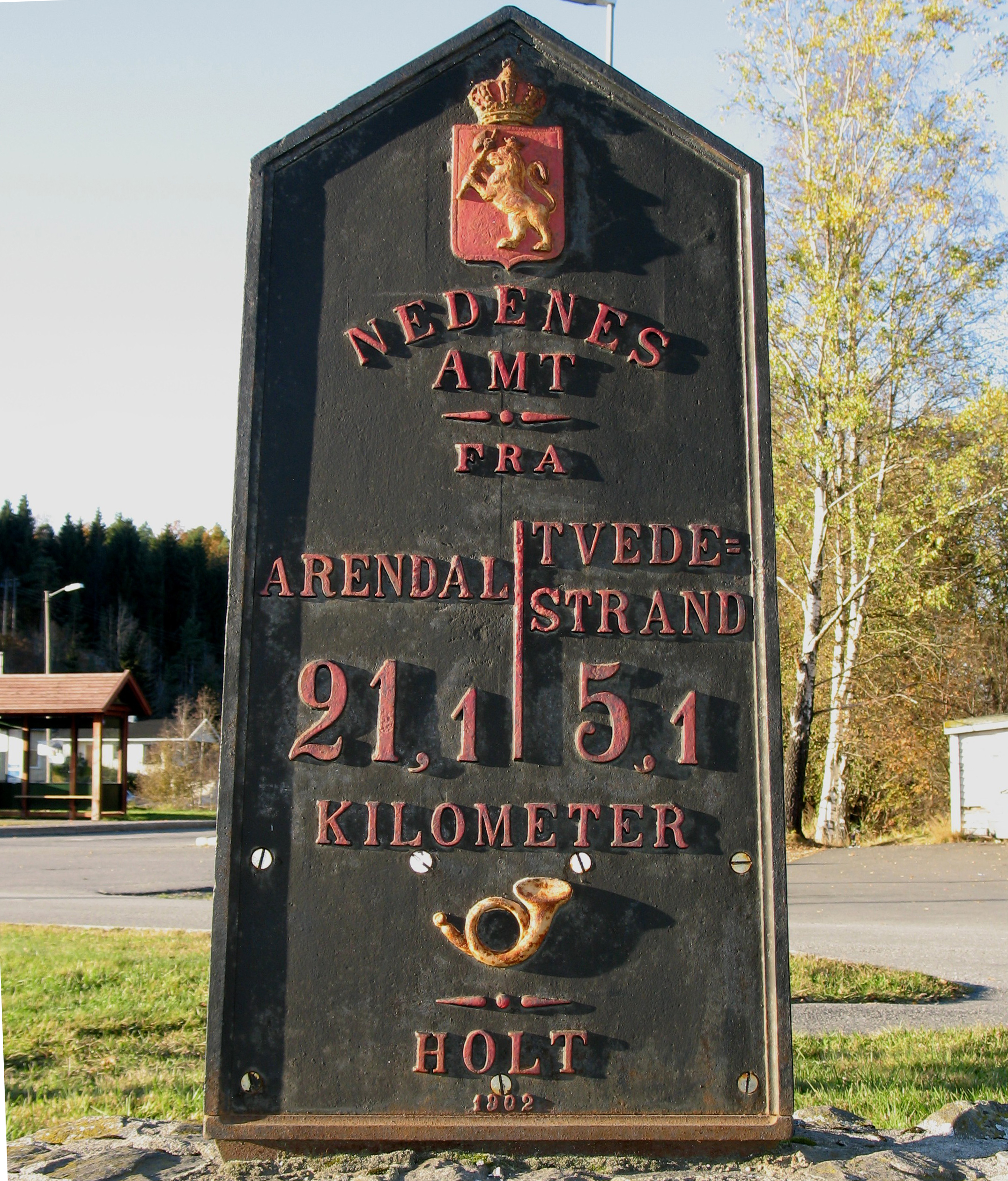 Milepæl cast iron at Fiane Holt Tvedestrand Norway